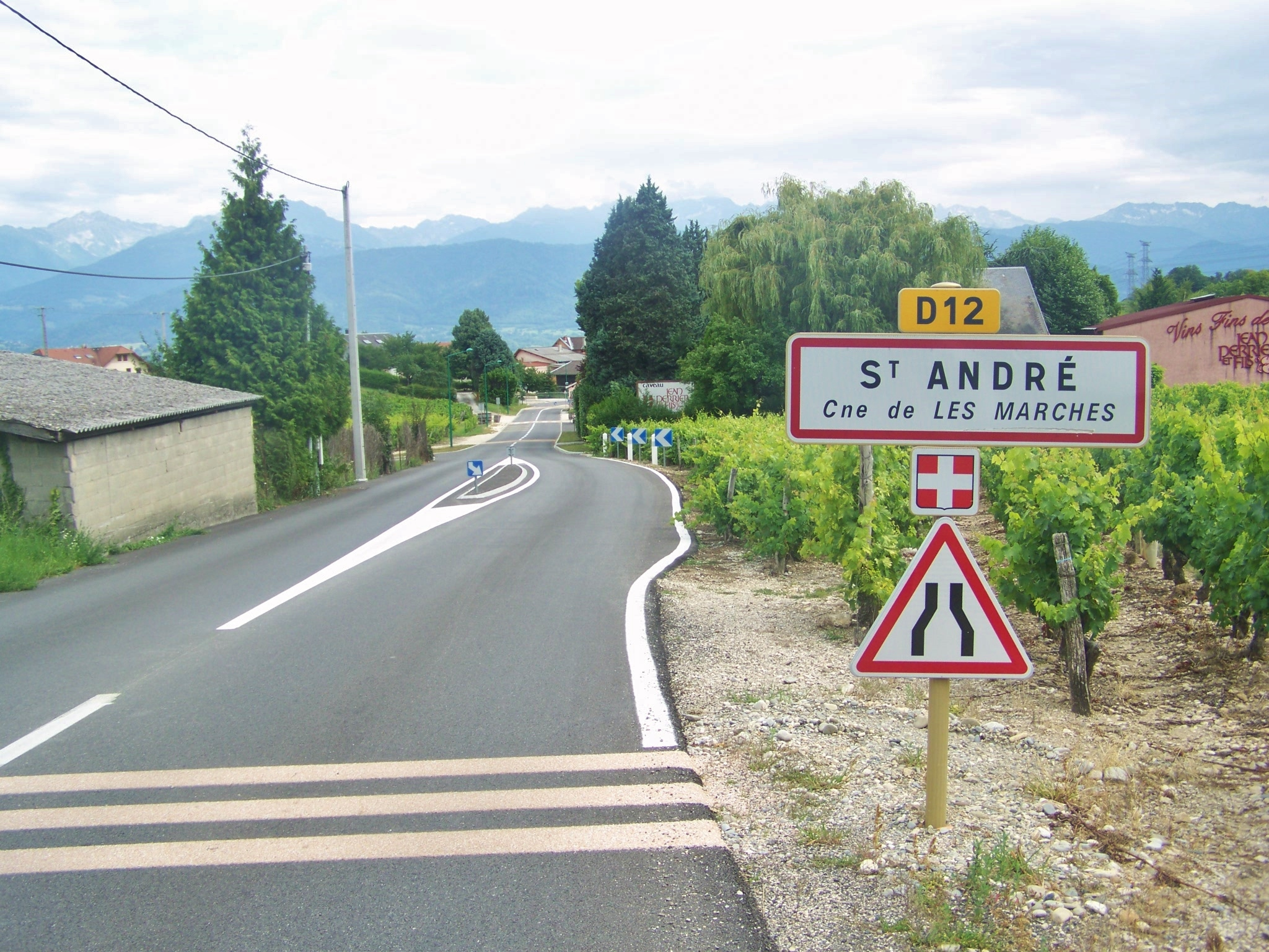 Entrance into the French hamlet of Saint-André, on the commune of Les Marches, near Chambéry, in Savoie.